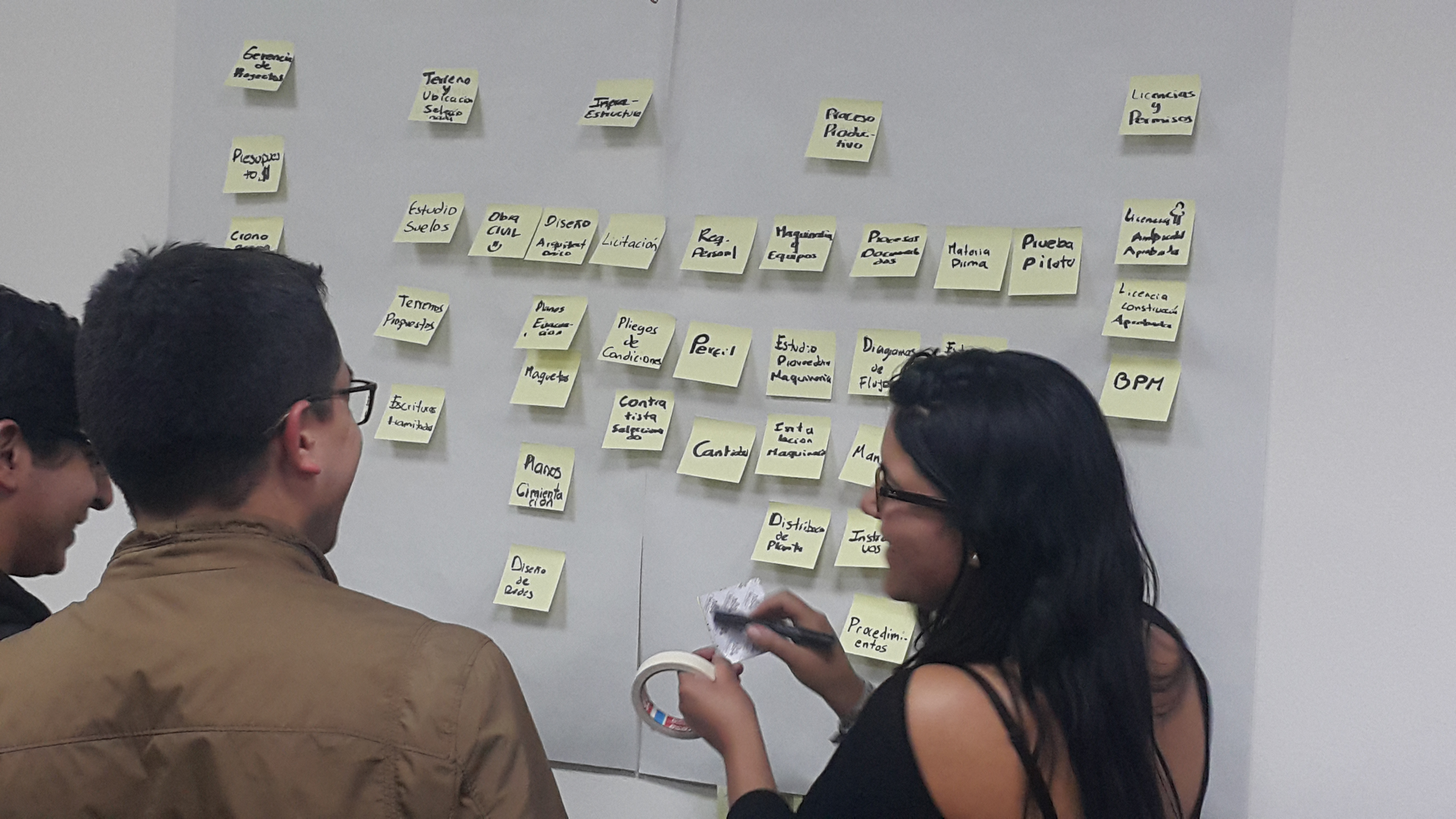 Working on project wbs